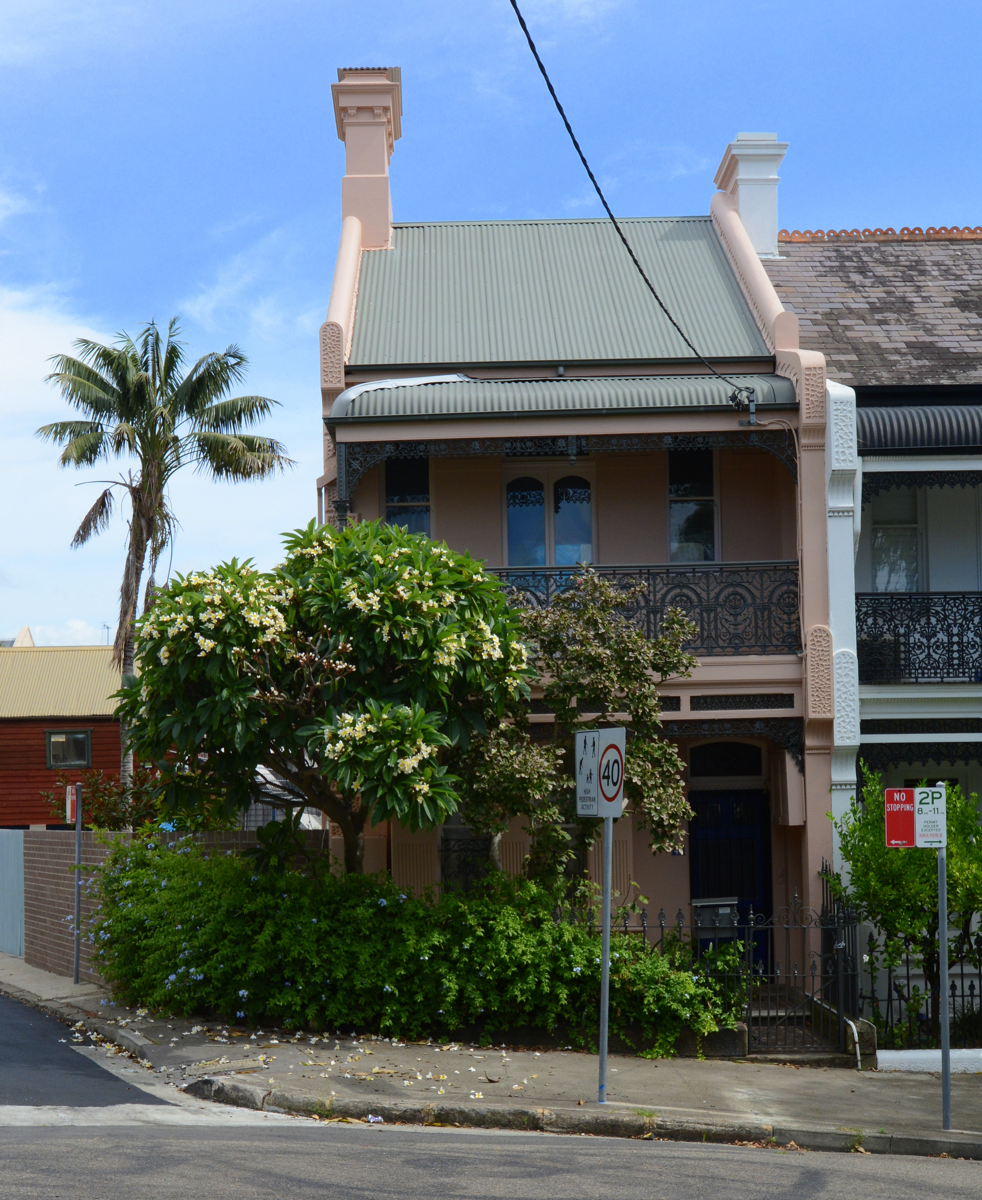 Former home of Margaret Olley, Paddington, Sydney